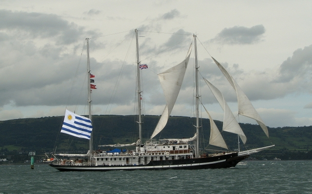 'Capitán Miranda, Tall Ships Belfast 2009 Schooner 'Capitán Miranda' in Belfast Lough as part of the 'Parade of Sail' event to mark the end of the Tall Ships event in Belfast. Built in Cadiz, Spain, in 1930 the 'Capitán Miranda' was original used to ship freight around South America in the 1930s. In the 1960s she entered service for the Uruguayan Navy as a hydrographic survey vessel. In 1978 she was restored back to a sailing ship again, and fitted with a modern schooner rig that was developed in the 1920s for racing yachts and is now a sail training ship for the Uruguayan Navy. The ship is named after after the Uruguayan hydrographer Captain Francisco Miranda (1868-1925) who served Uruguay as a cabinet officer, war secretary and later professor of marine geography at the Naval Academy of Uruguay.